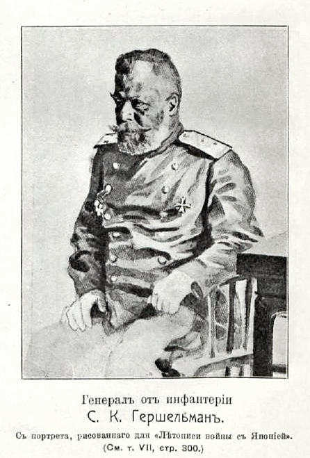 Gershelman, Sergey Konstantinovich.